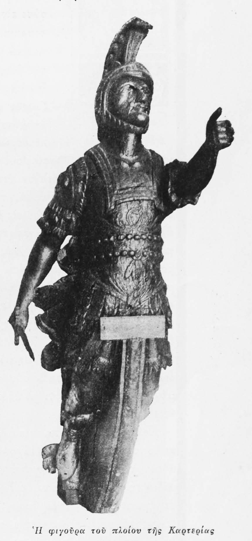 Figurehead of the Karteria, first steamship of the greek fleet